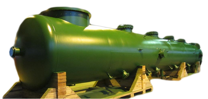 Multistage condensor - Column